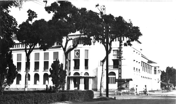 The head office of the Deli Railway Company (DSM)